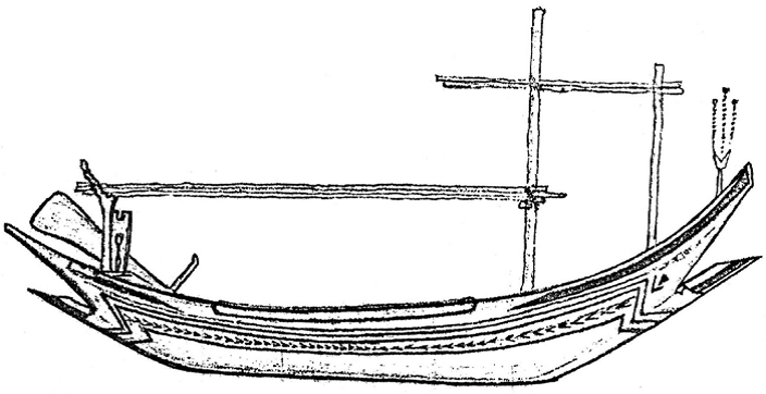 A line drawing showing a small lis alis.